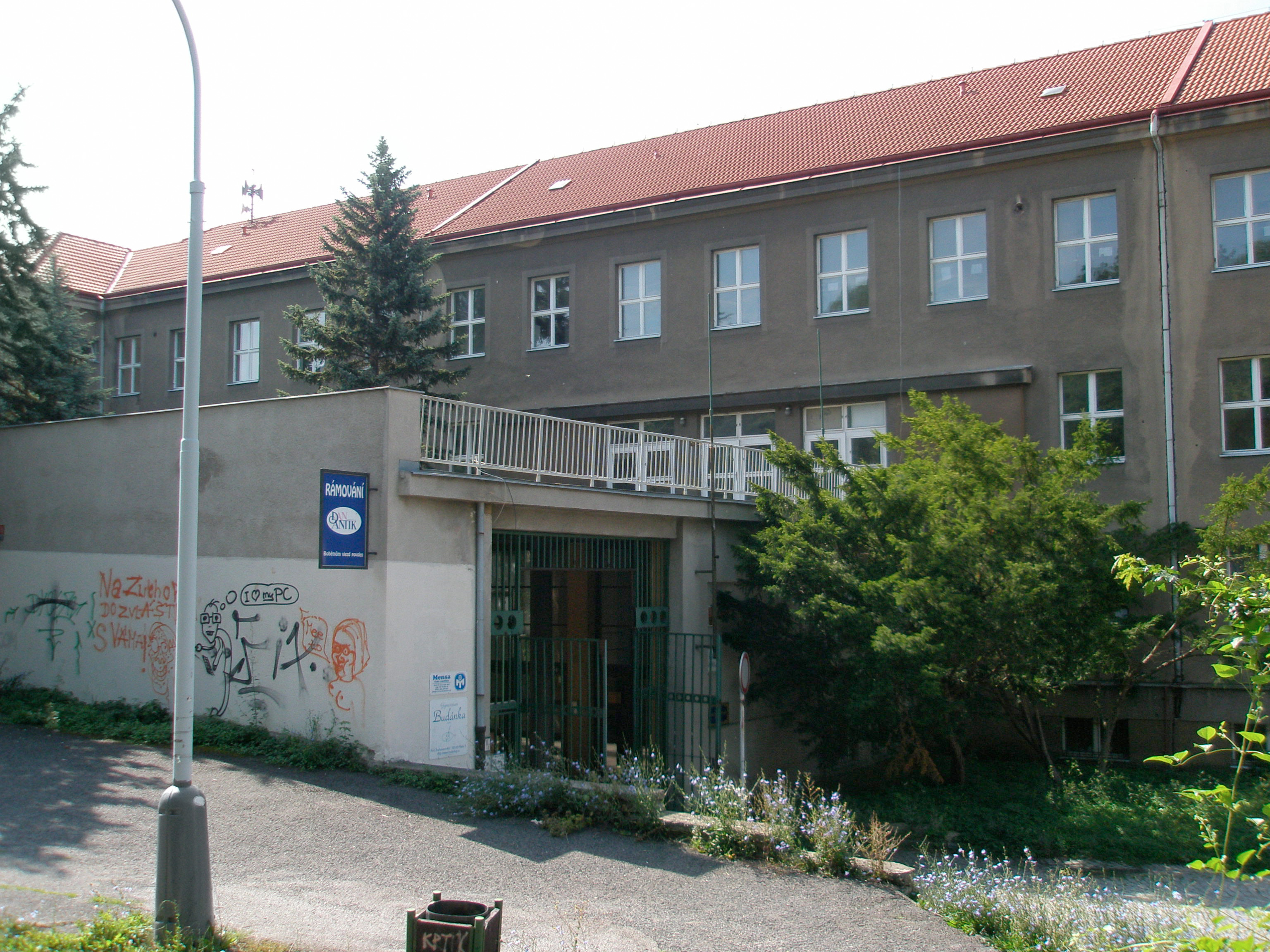 Gymnasium (high school) for gifted children, founded in 1993 by Mensa Czech Republic and from 2005 to 2010 located in this building in Prague 5 – Hlubočepy, Pod Žvahovem 463